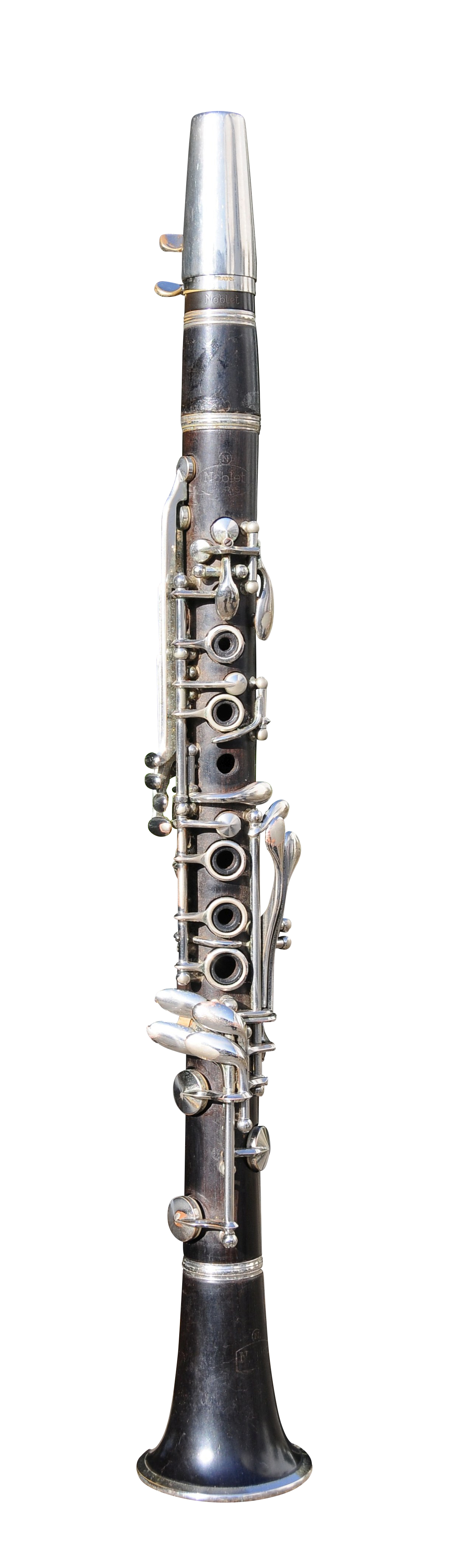 E-flat clarinet